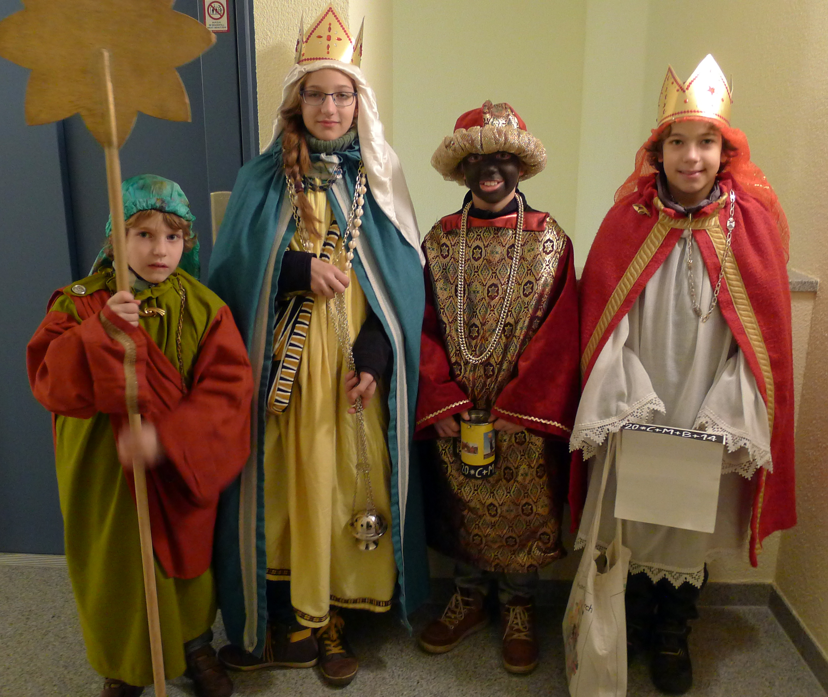 Star singers at my front door.